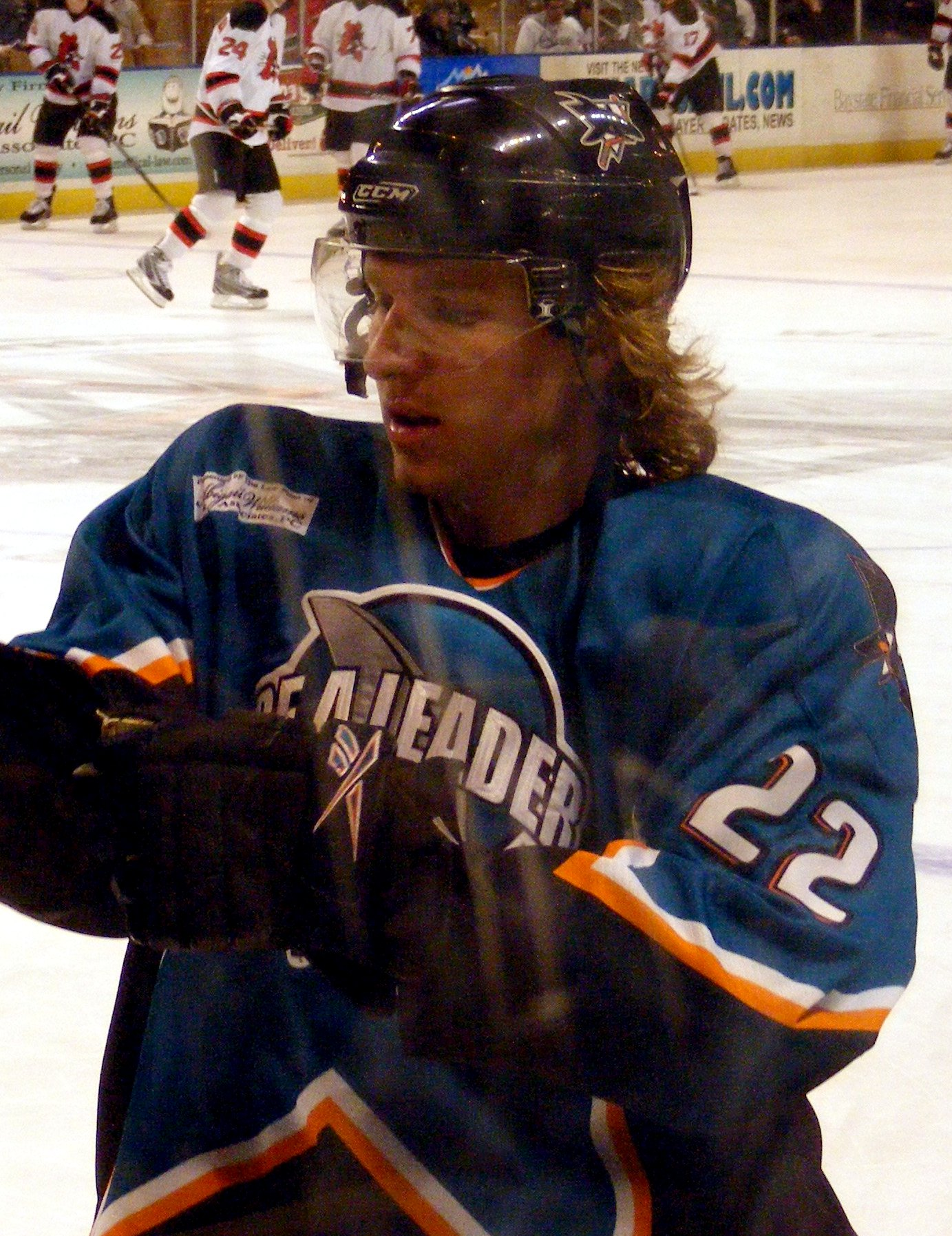 Czech ice hockey player Lukáš Kašpar in Worcester Sharks